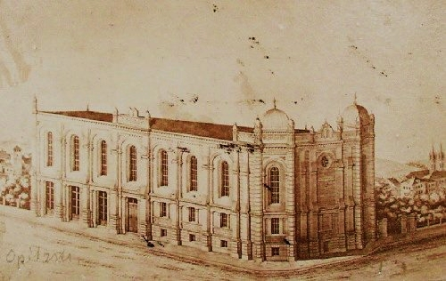 Eger - Cheb in Czech Republic. Draft for a synagogue in 1870 in the Opitzstrasse. Withdrawn project.